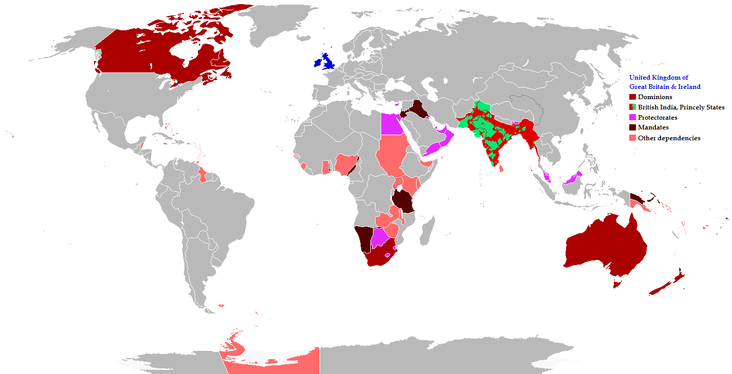 Map of the British Empire in 1919 showing all the territories, including the dominions, colonies, protectorates and mandates, ruled or administered by the United Kingdom and its successor states during that year.